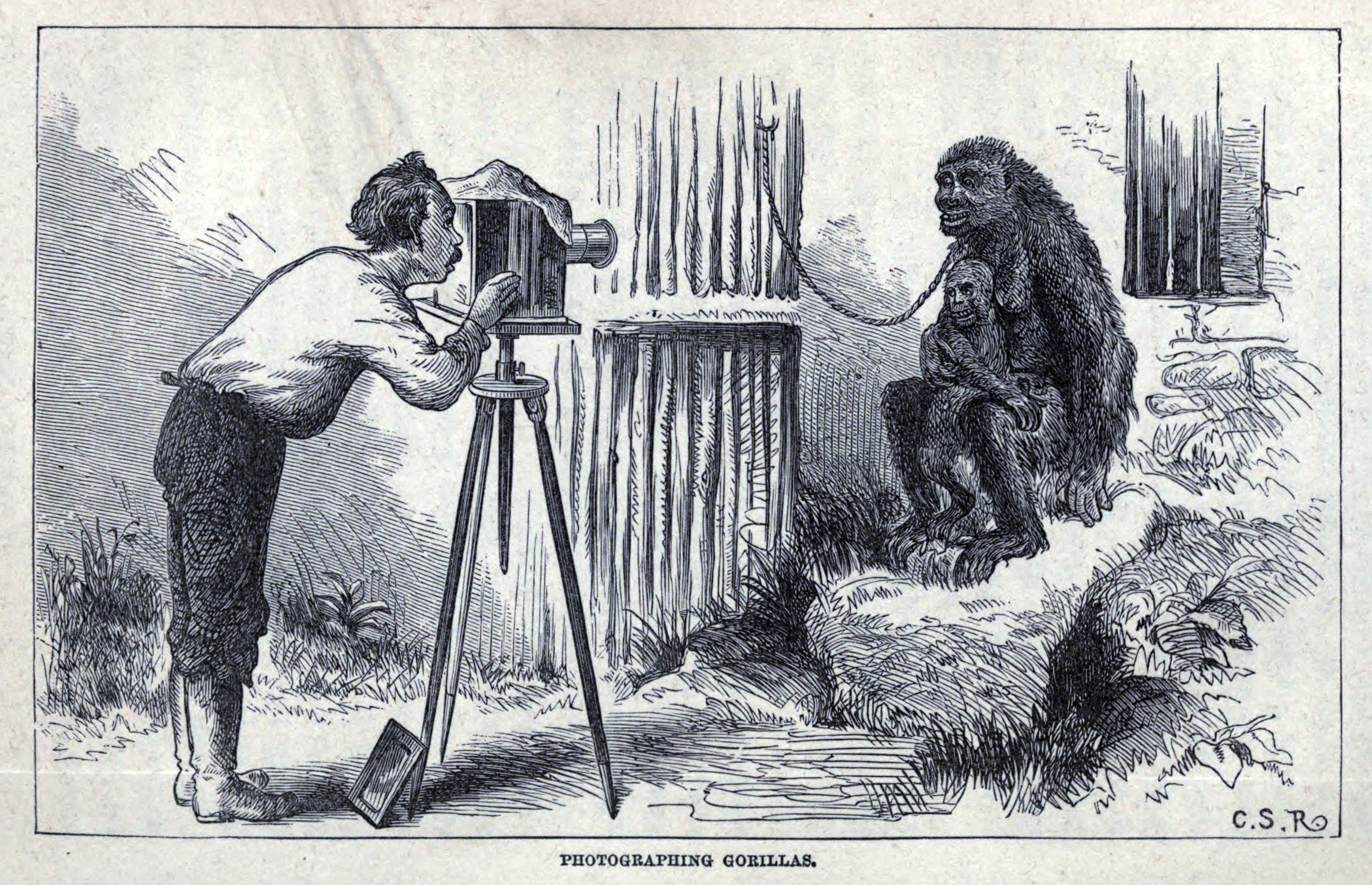 Illustration from The Country of the Dwarfs